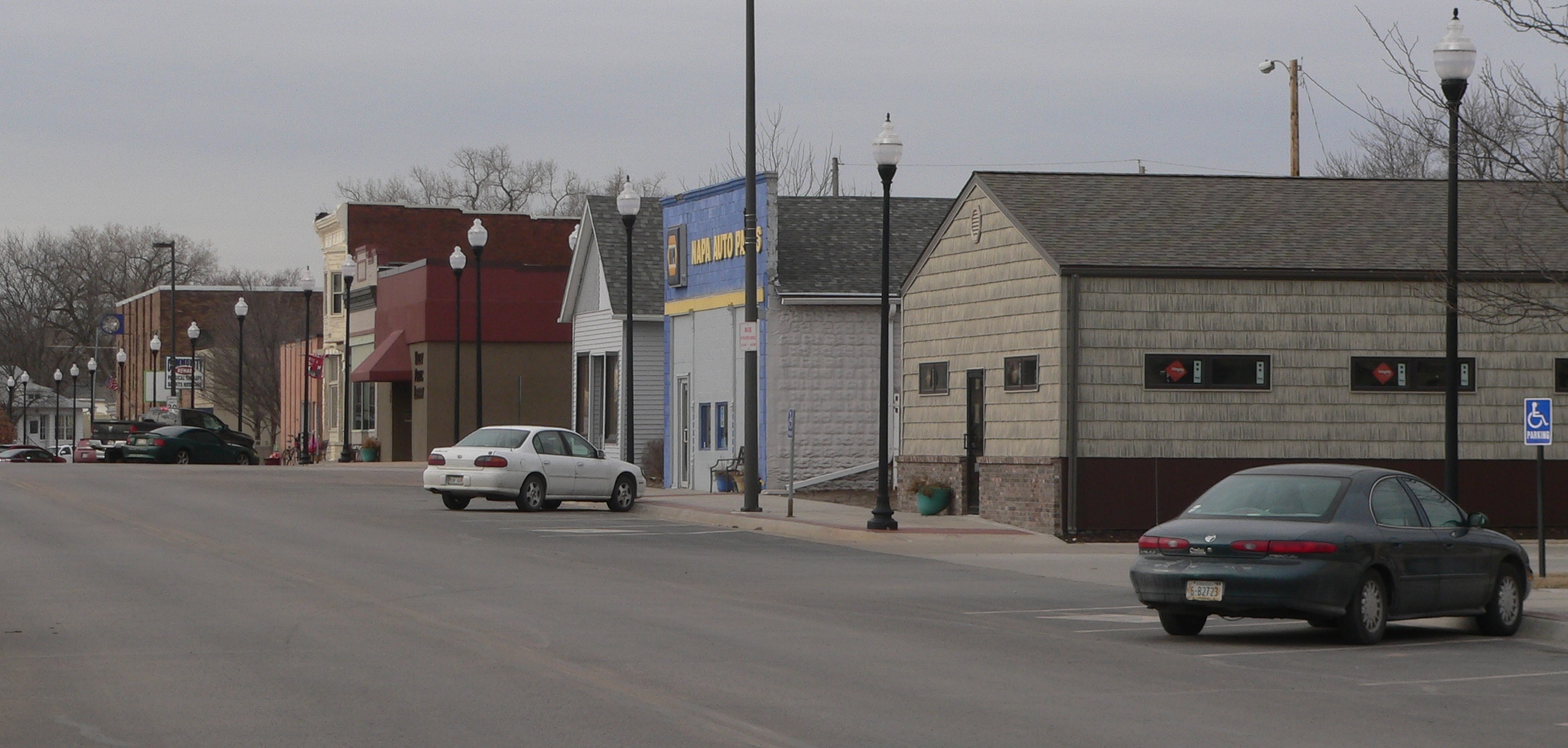 Downtown Valley, Nebraska: east side of North Spruce Street